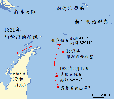 Map of Antarctica and the supposed coastline of New South Greenland as described by Benjamin Morrell in red